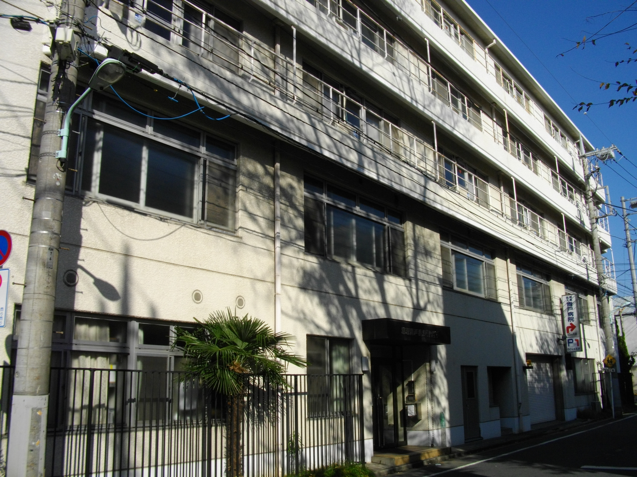 Former Jikei Aoto Nursing School